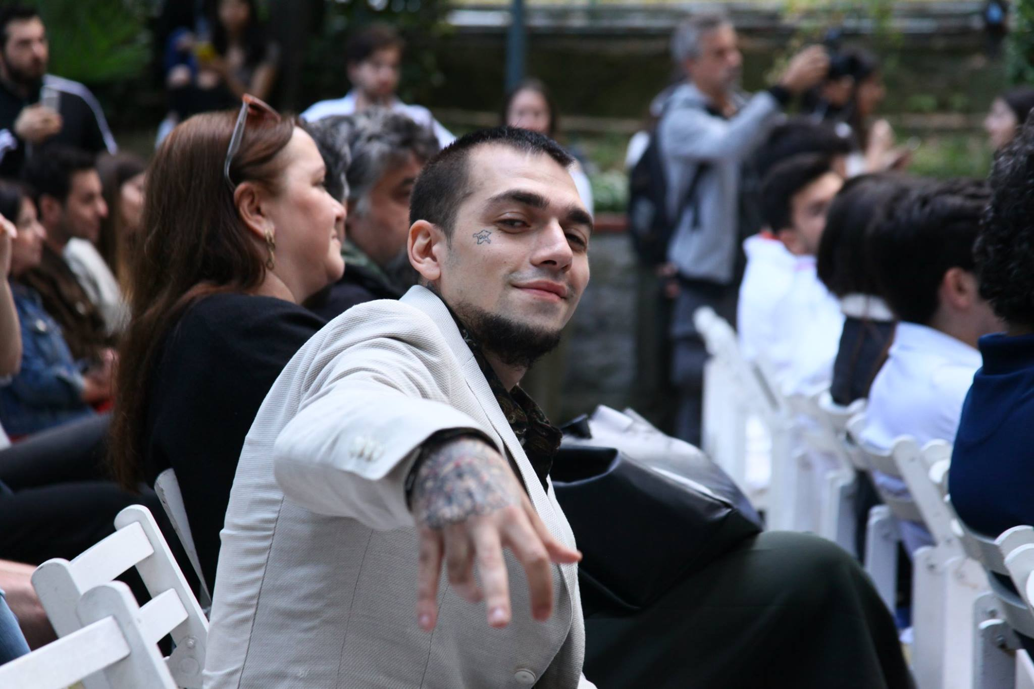 Turkish rapper Ezhel during 15th Radio Boğaziçi Music Awards.